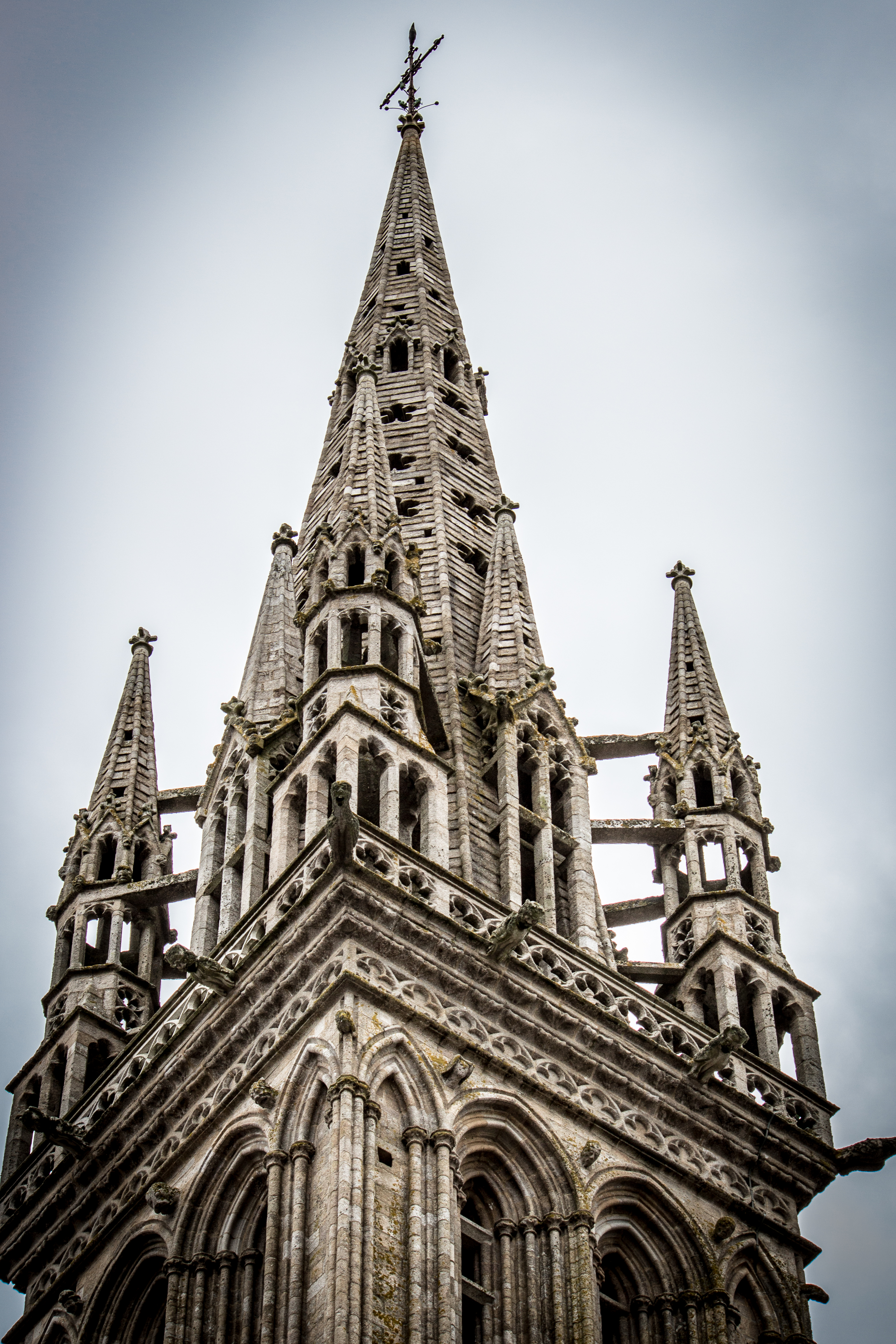 With its 78 meters rising up in the sky, the church tower of the "Chapelle du Kreisker" is the highest in Brittany.